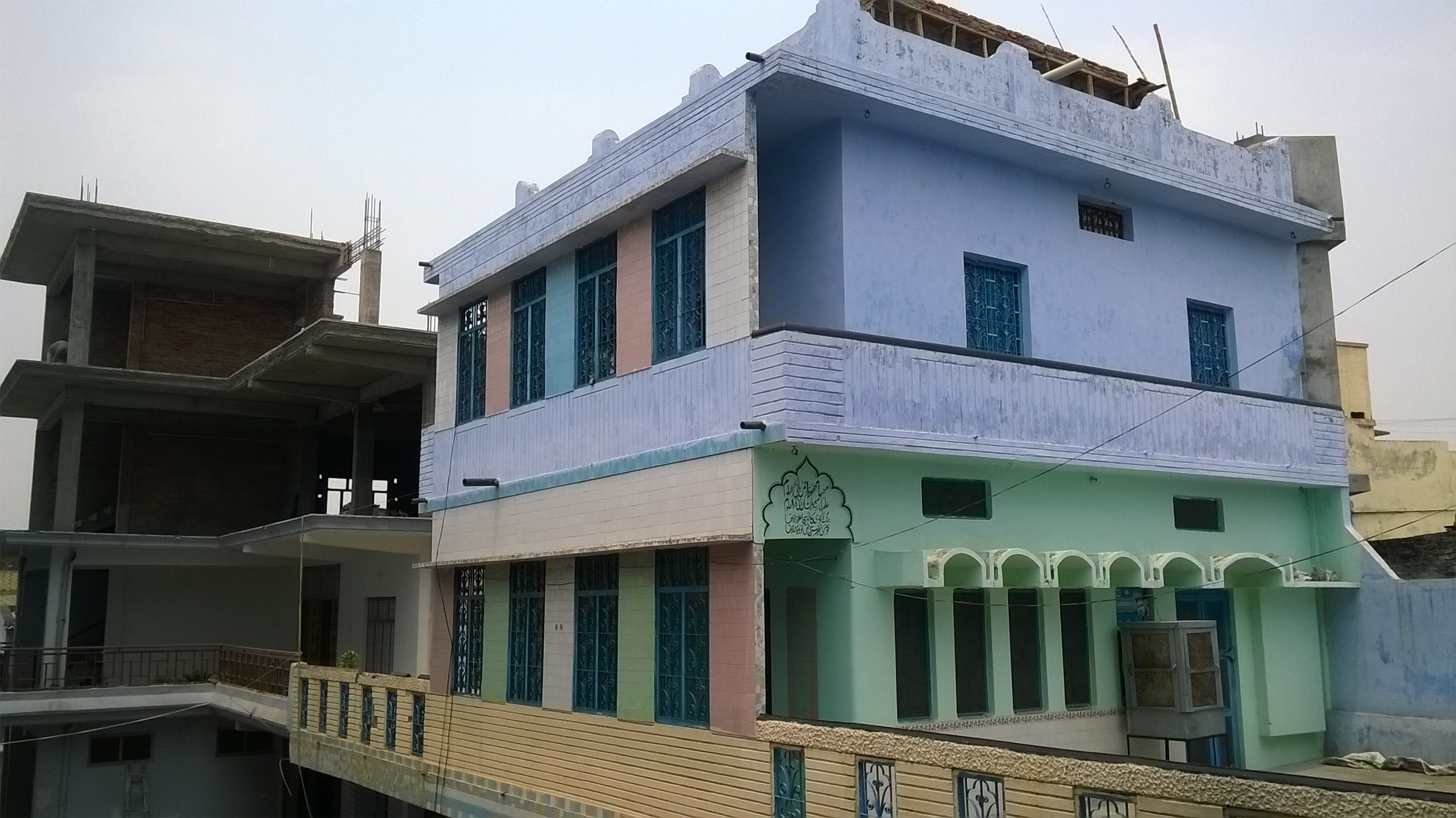 Noorul Uloom Bahraich's main building 's panoramic view